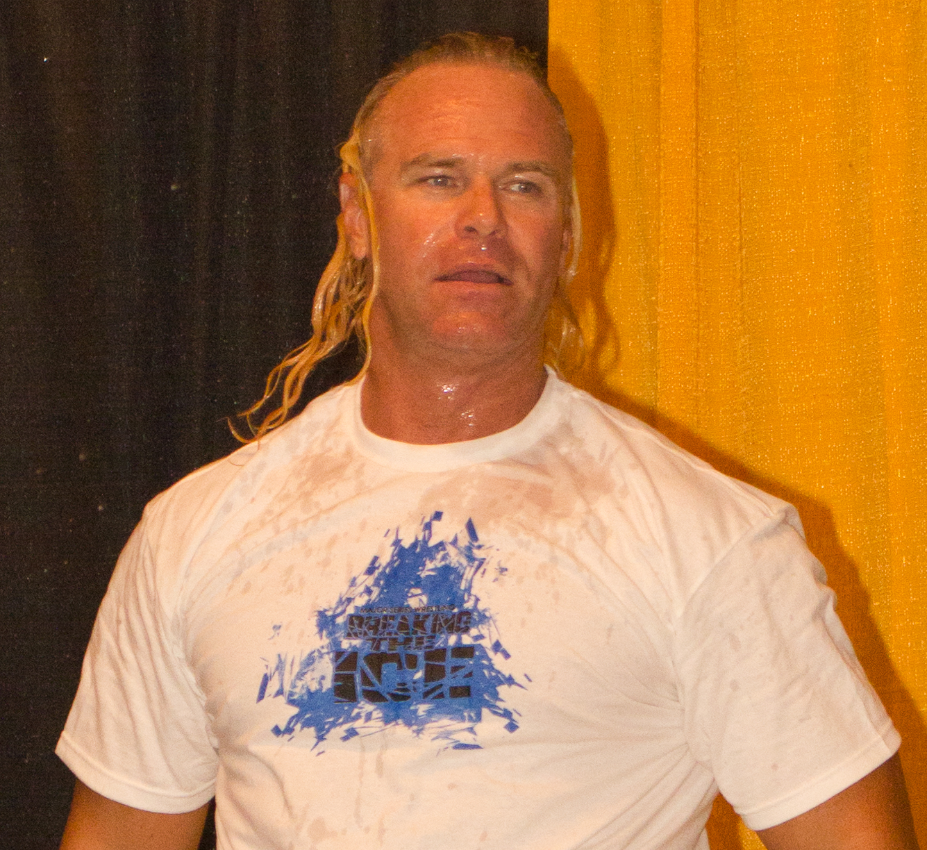 Professional wrestler Billy Gunn.